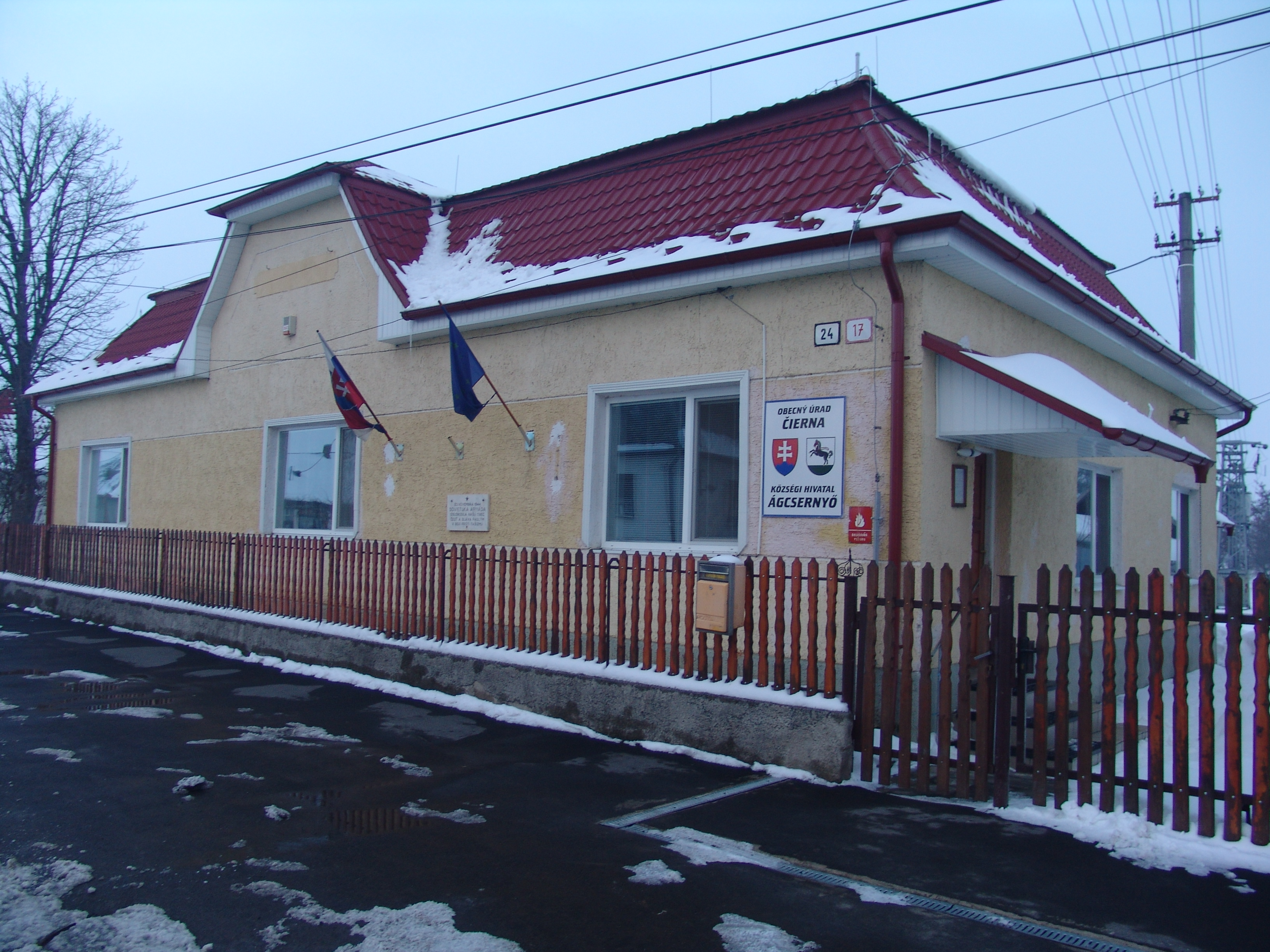 Municipal Office in Cierna